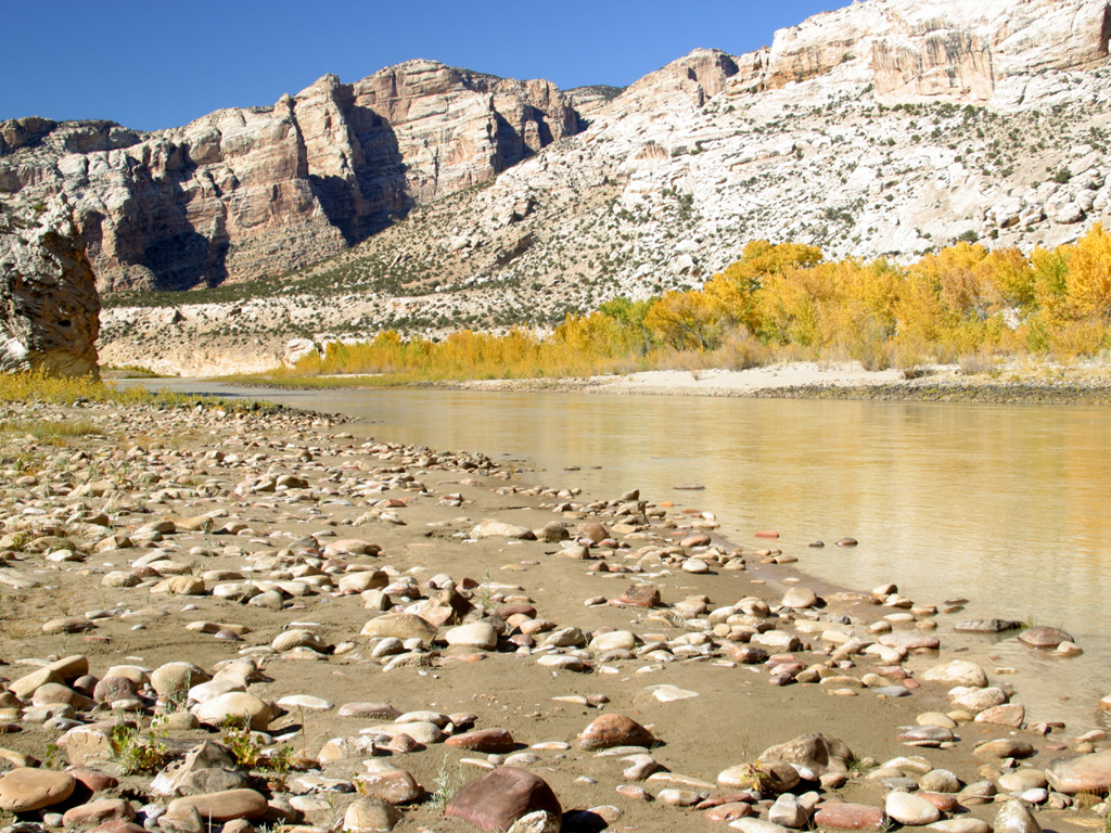 A view of the Green River facing upstream of the Split Mountain Campground in Dinosaur National Monument. The river flows through Split Mountain Canyon before leaving Dinosaur National Monument.